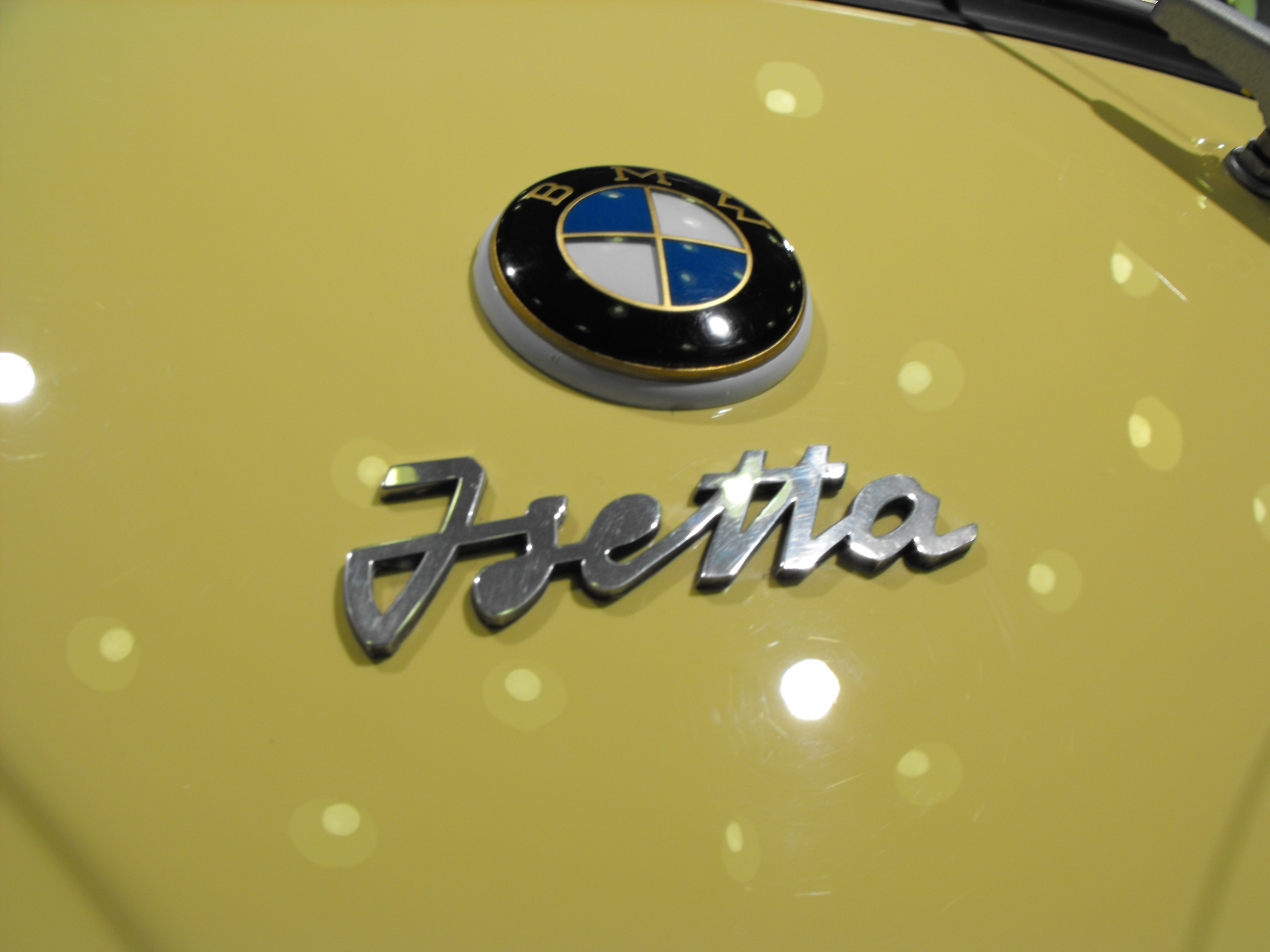 BMW Isetta